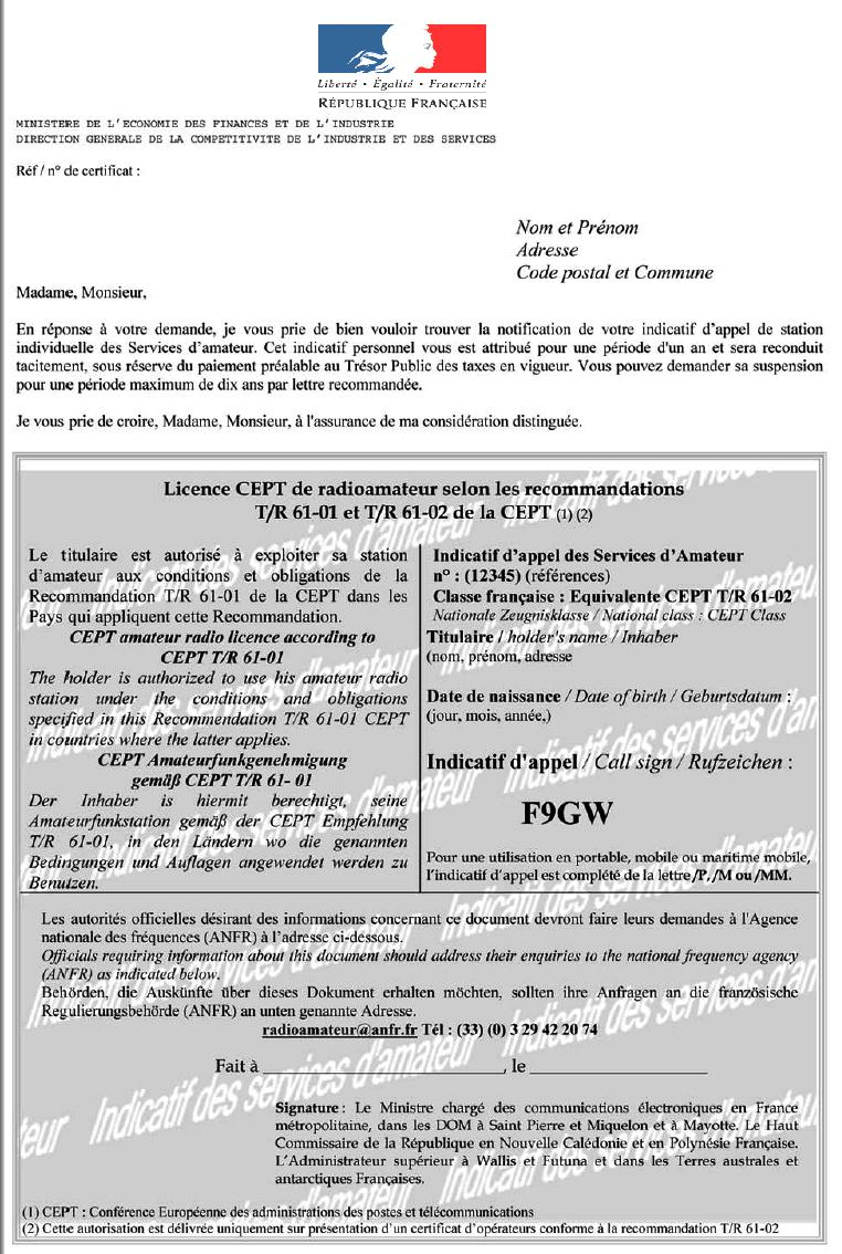 Licence amateur radio